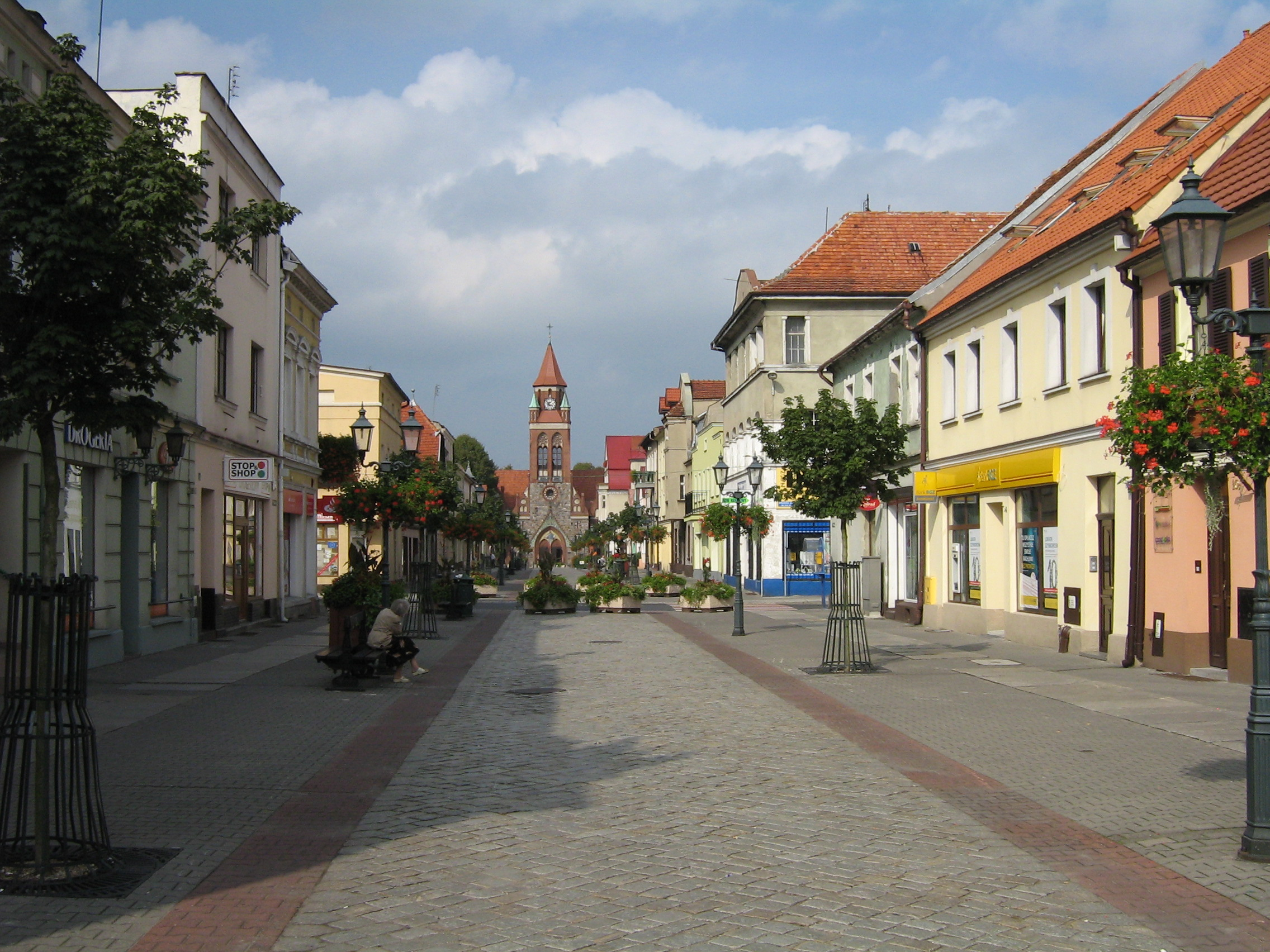 Szeroka-Street, Grodzisk Wielkopolski (Poland)